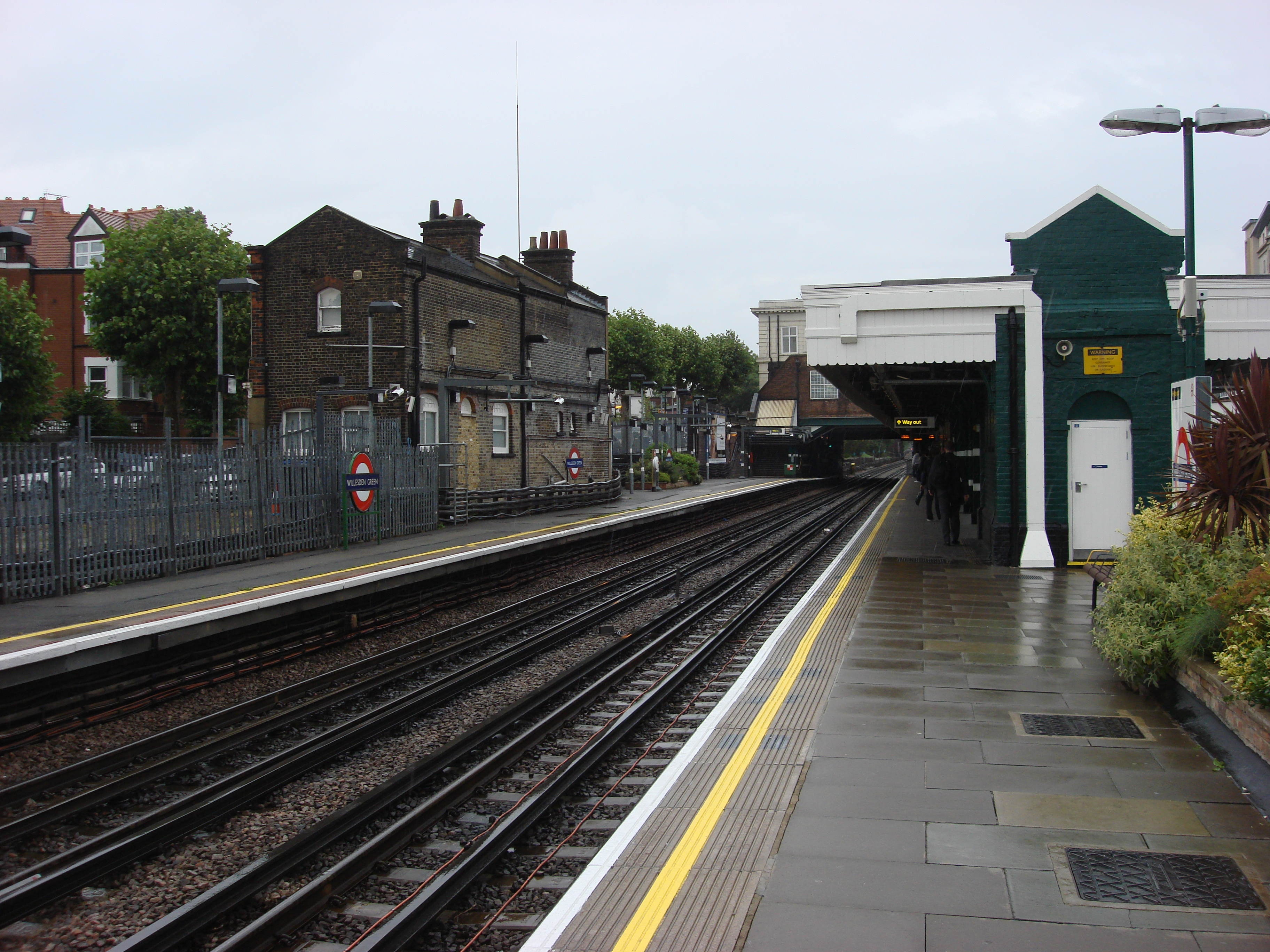 Willesden Green tube station, southbound Jubilee line platform